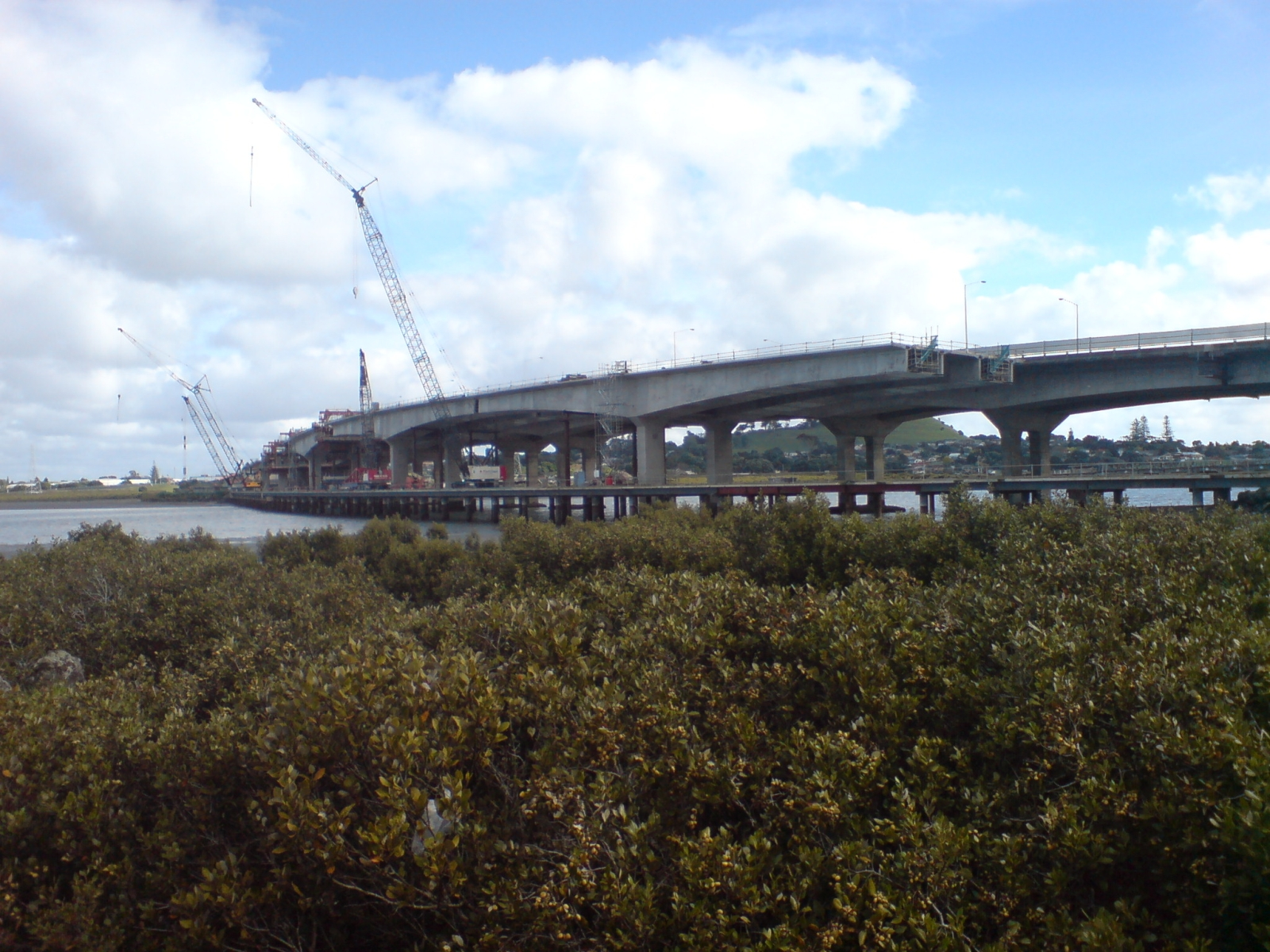 Looking southwestwards, the new Mangere Bridge motorway duplication bridge being built between Onehunga and Mangere Bridge, Auckland, New Zealand.